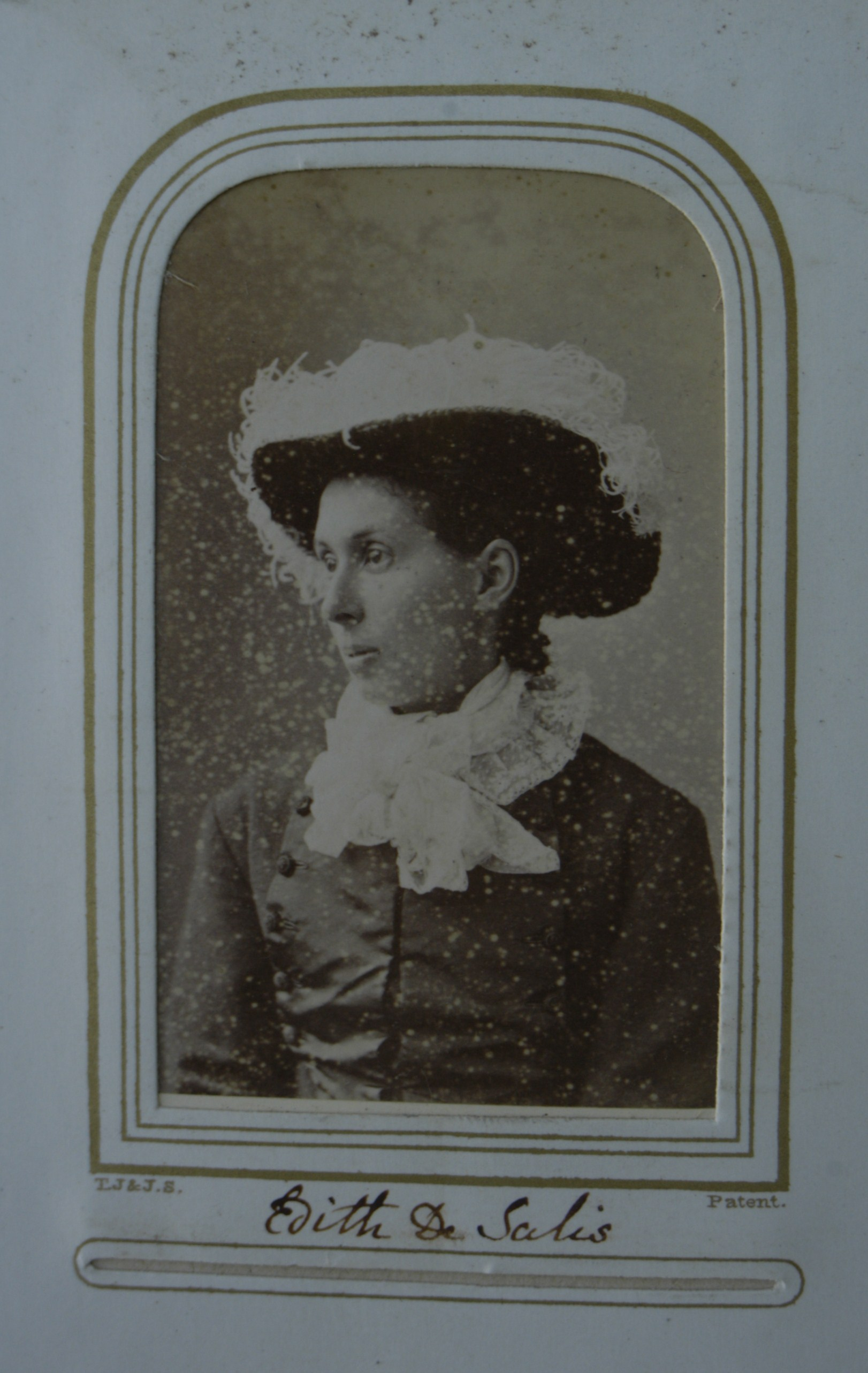 Photo (by me, R. de Salis, Rodolph (talk) 00:04, 13 August 2015 (UTC)) of a photo of Edith Rousby (1855-1920), circa 1890, wife to Rodolph Fane De Salis.